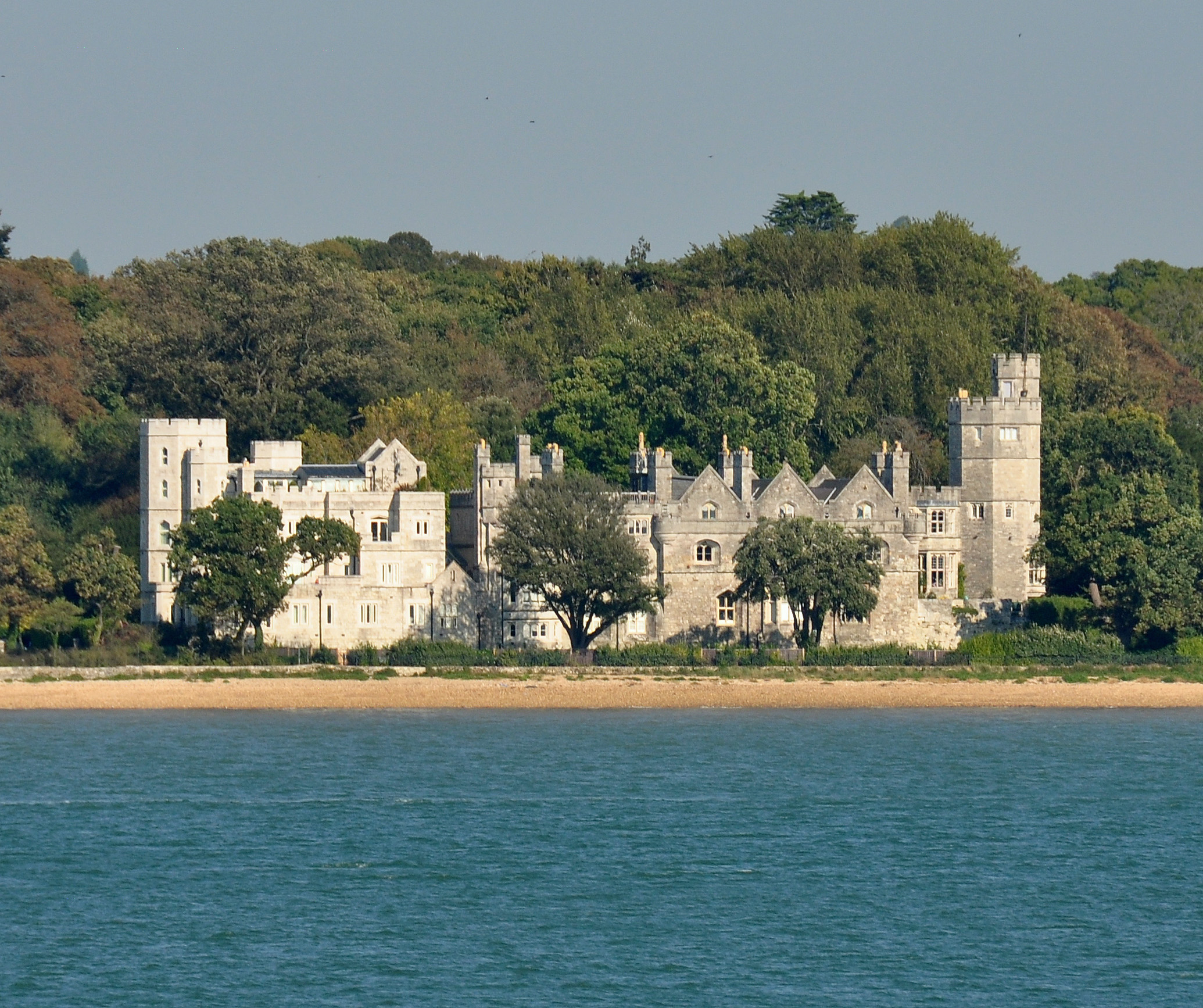 Netley Castle in Hampshire, seen from the Solent.